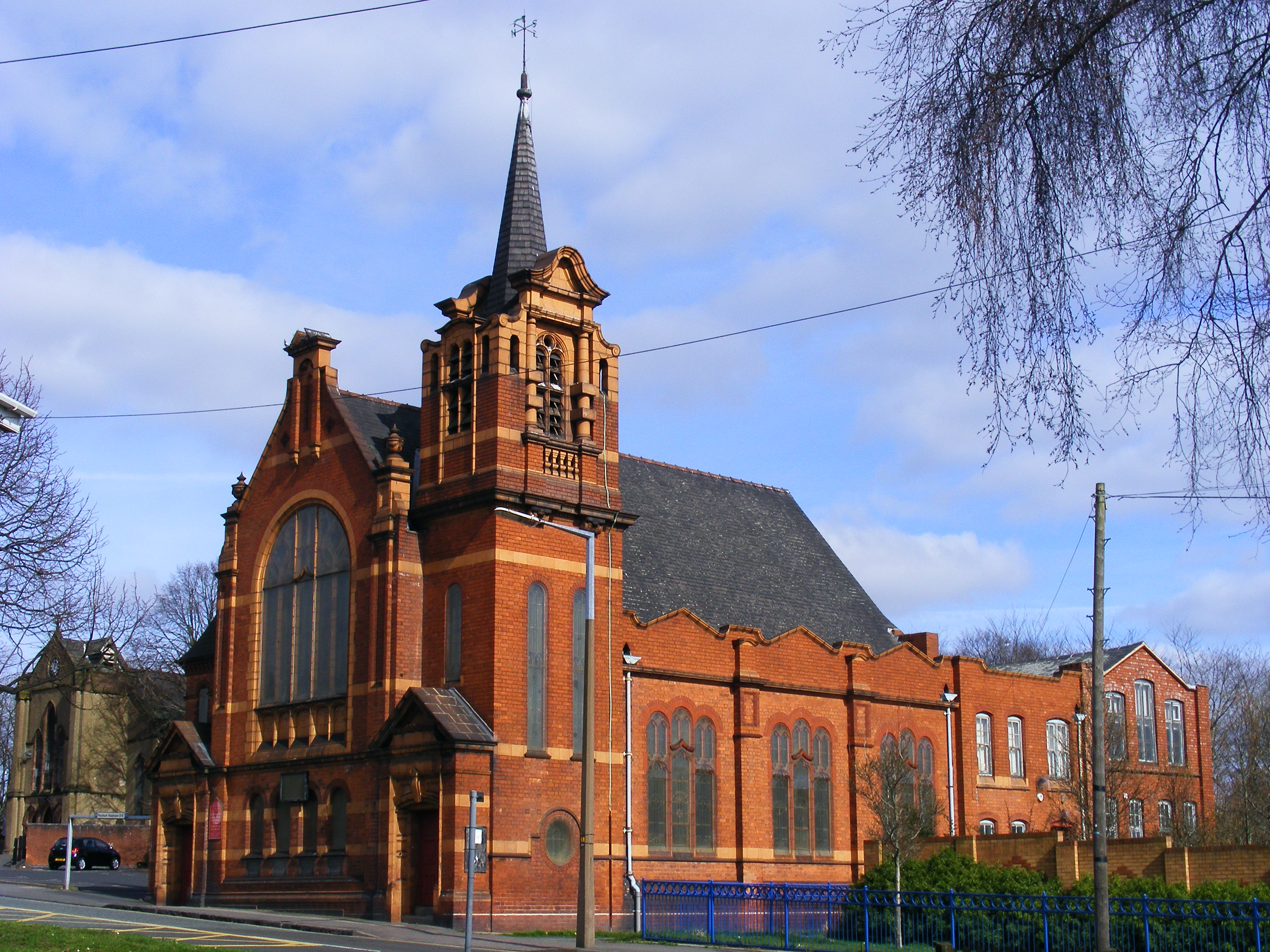 Cradley Heath Baptist Church showing the 1904 building from Corngreaves Road. The earlier Chapel is at the rear (right). St. Luke's Church, Anglican, may be see to the left.